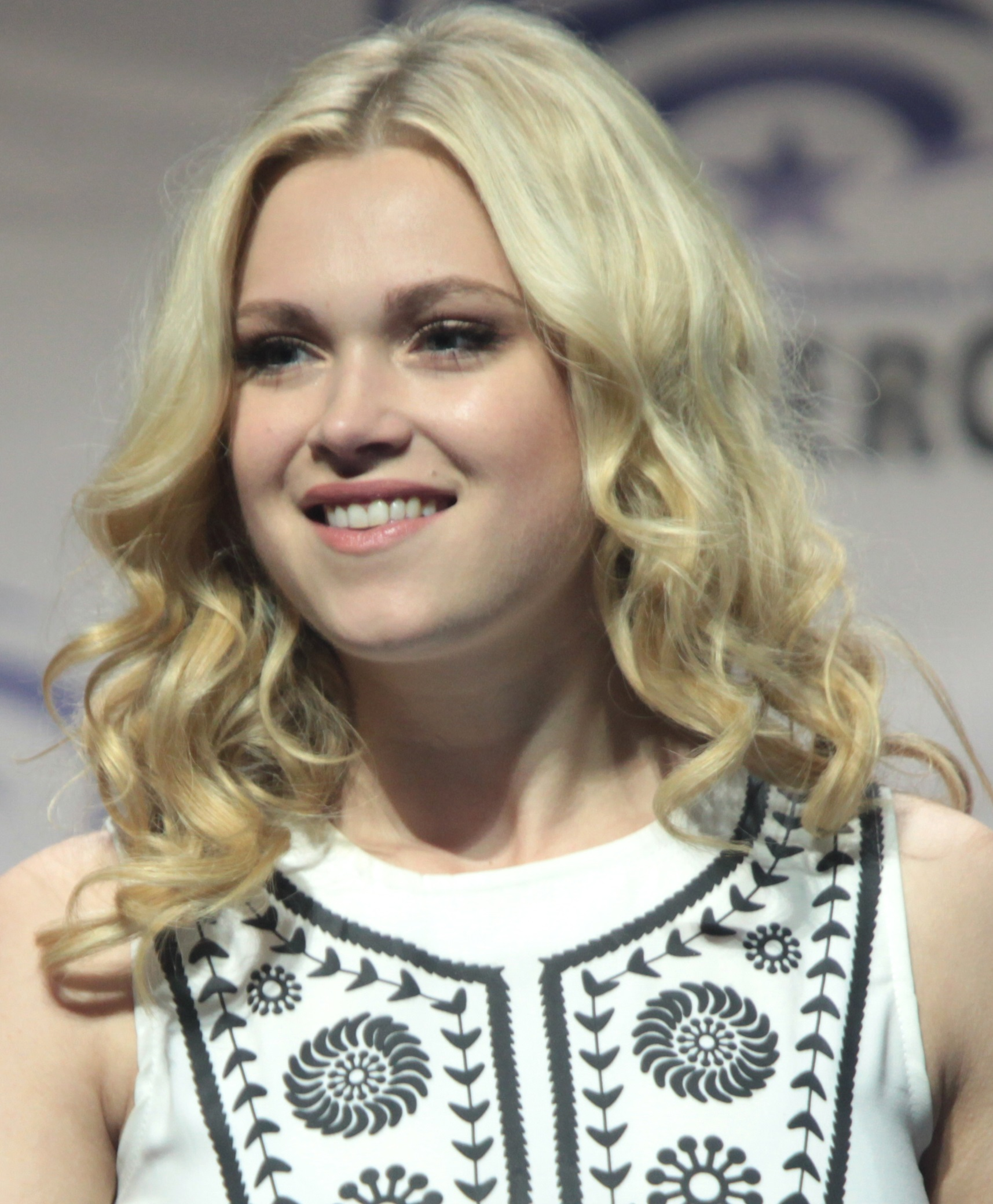 Eliza Taylor speaking at the 2016 WonderCon in Los Angeles, California.